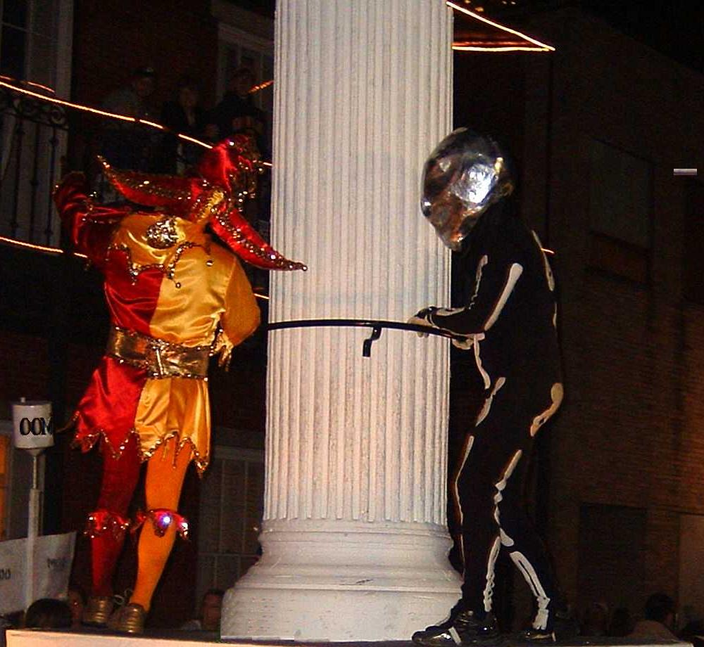 Mardi Gras in Mobile, Alabama, at the Order of Myths parade: the insignia float traditionally has Folly chasing Death around the Pillar of Life. The costumes for Folly have varied, but Death is usually dressed as a skeleton (retouched photo, 2007-02-20). Source: personal photo (retouched to photo-blur faces). Variations: OOM insignia float: Image:Mobile_MardiGras2007_OOM_parade_insignia_float.jpg; OOM Folly chasing Death: Image:Mobile_MardiGras2007_OOM_Folly_chasing_Death.jpg; OOM Folly costume: Image:Mobile_MardiGras2007_OOM_Folly_costume.jpg; OOM flame torch: Image:Mobile_MardiGras2007_OOM_flame_torch.jpg.